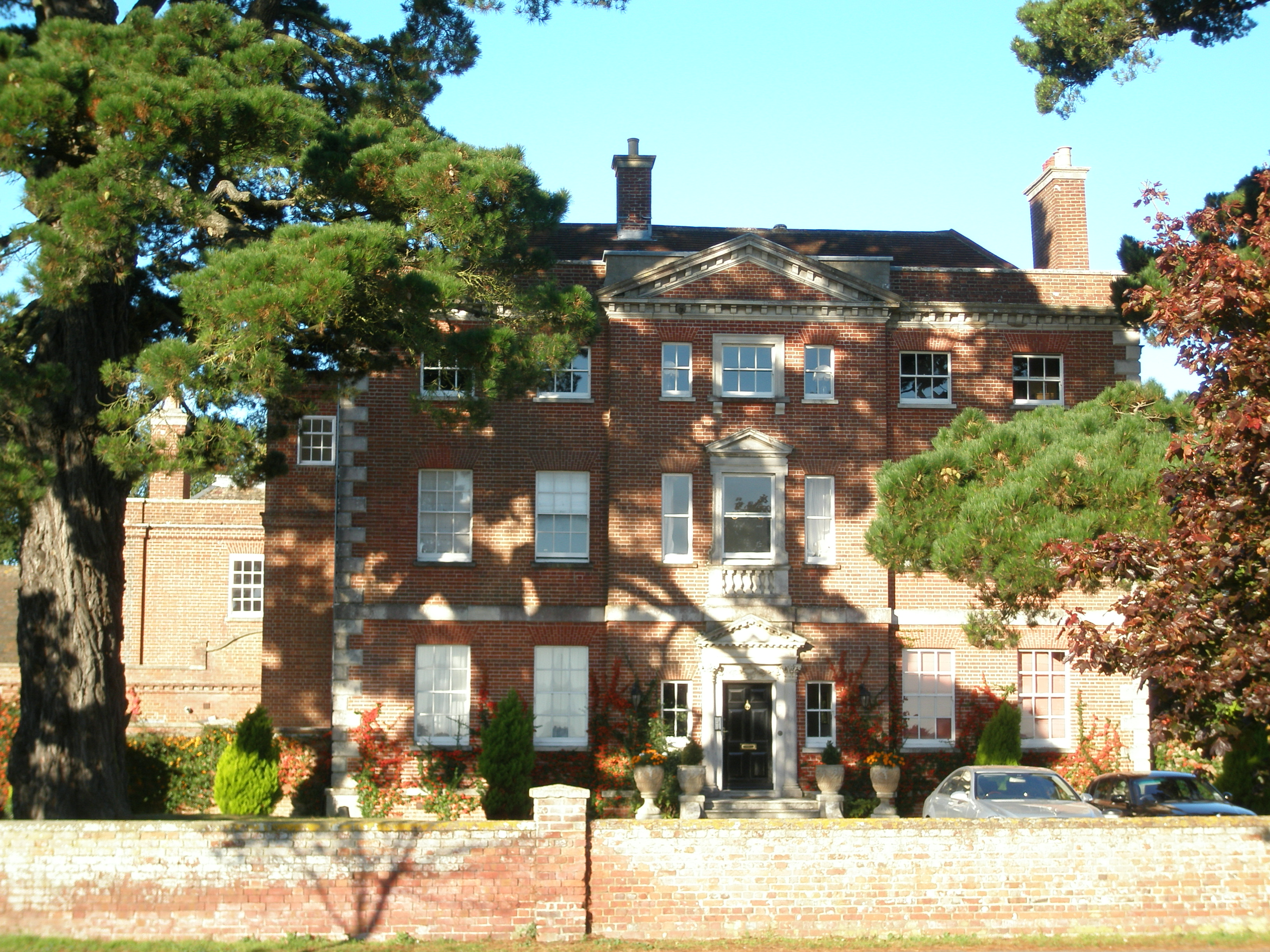 Built in 1750 from brick with stone dressings, Burton Hall in Christchurch, Dorset; is a grade II* listed building.